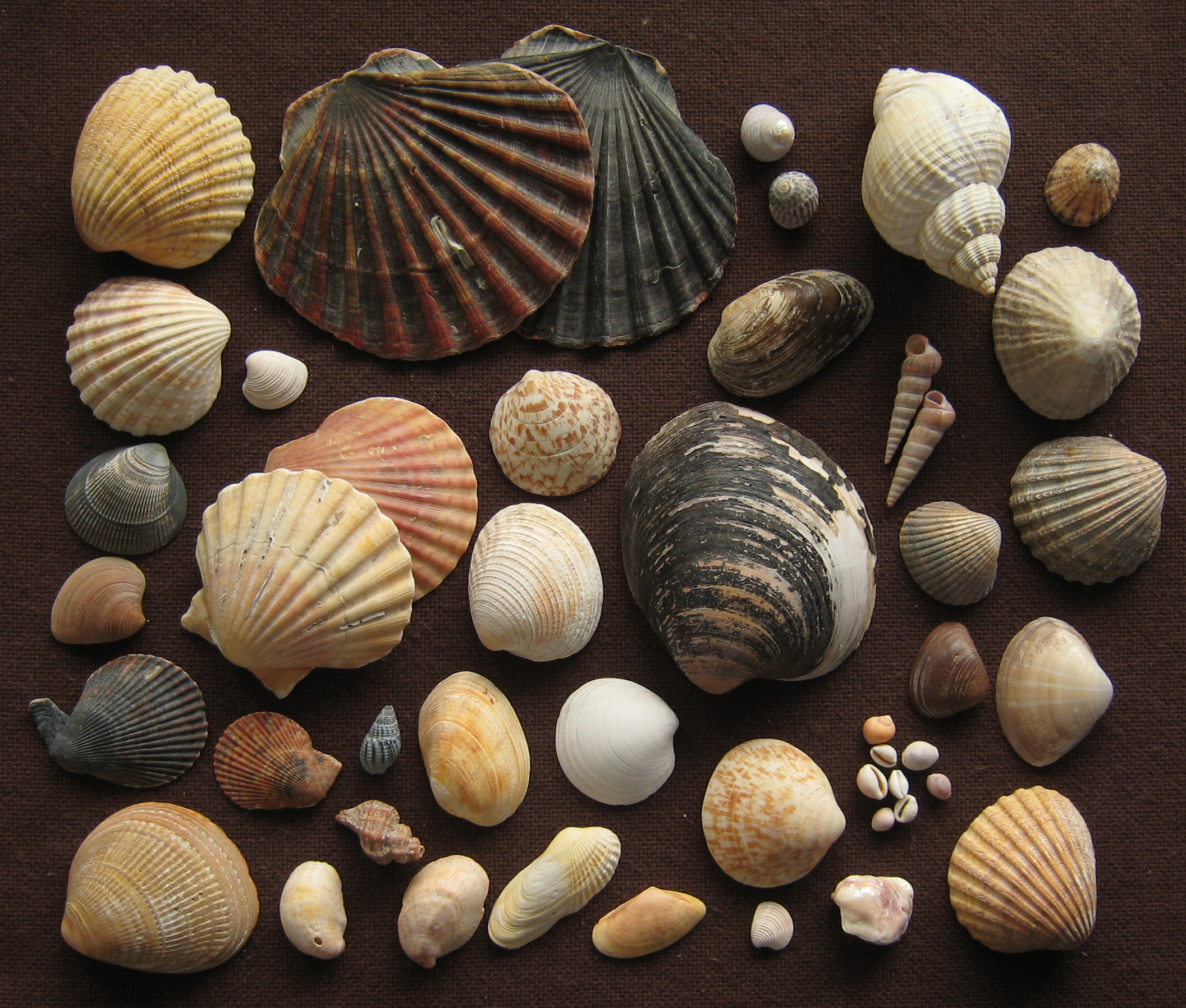 Seashells: marine bivalves and gastropods from Shell Island, a coastal peninsula south of Harlech Castle, in North Wales/ Great Britain. There we found about 25 different species out of 200 shells we picked up